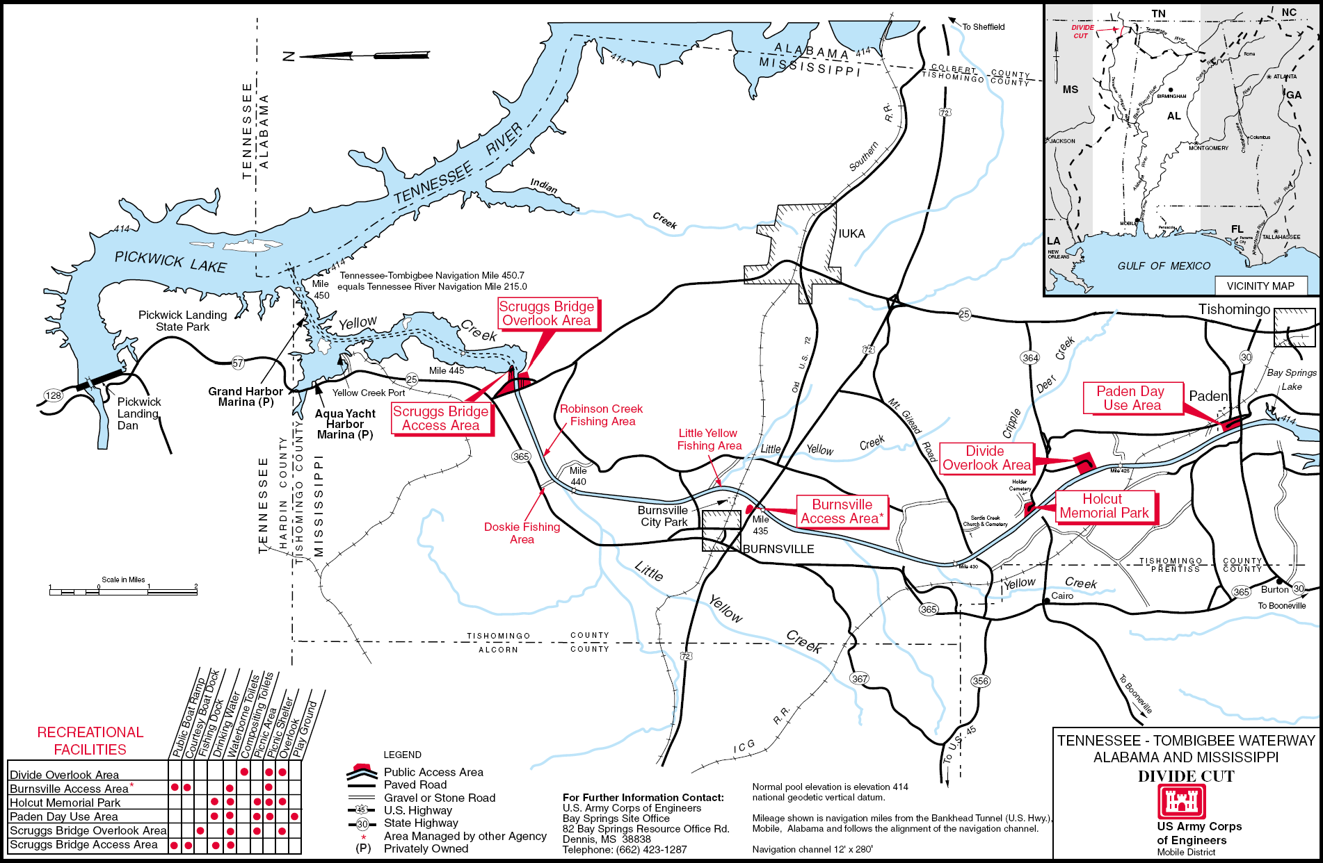 Detailed map of the Divide Cut on the Tennessee-Tombigbee Waterway in the U.S. State of Mississippi. PDF file saved as PNG.